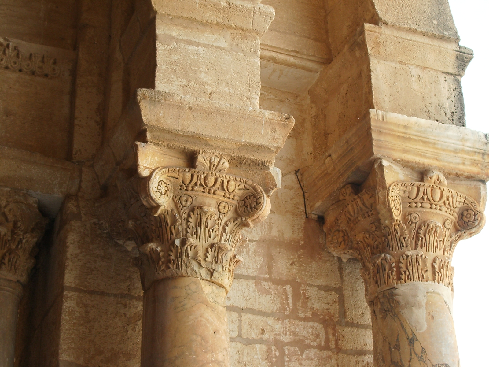 Composite capital, Great Mosque of Kairouan.